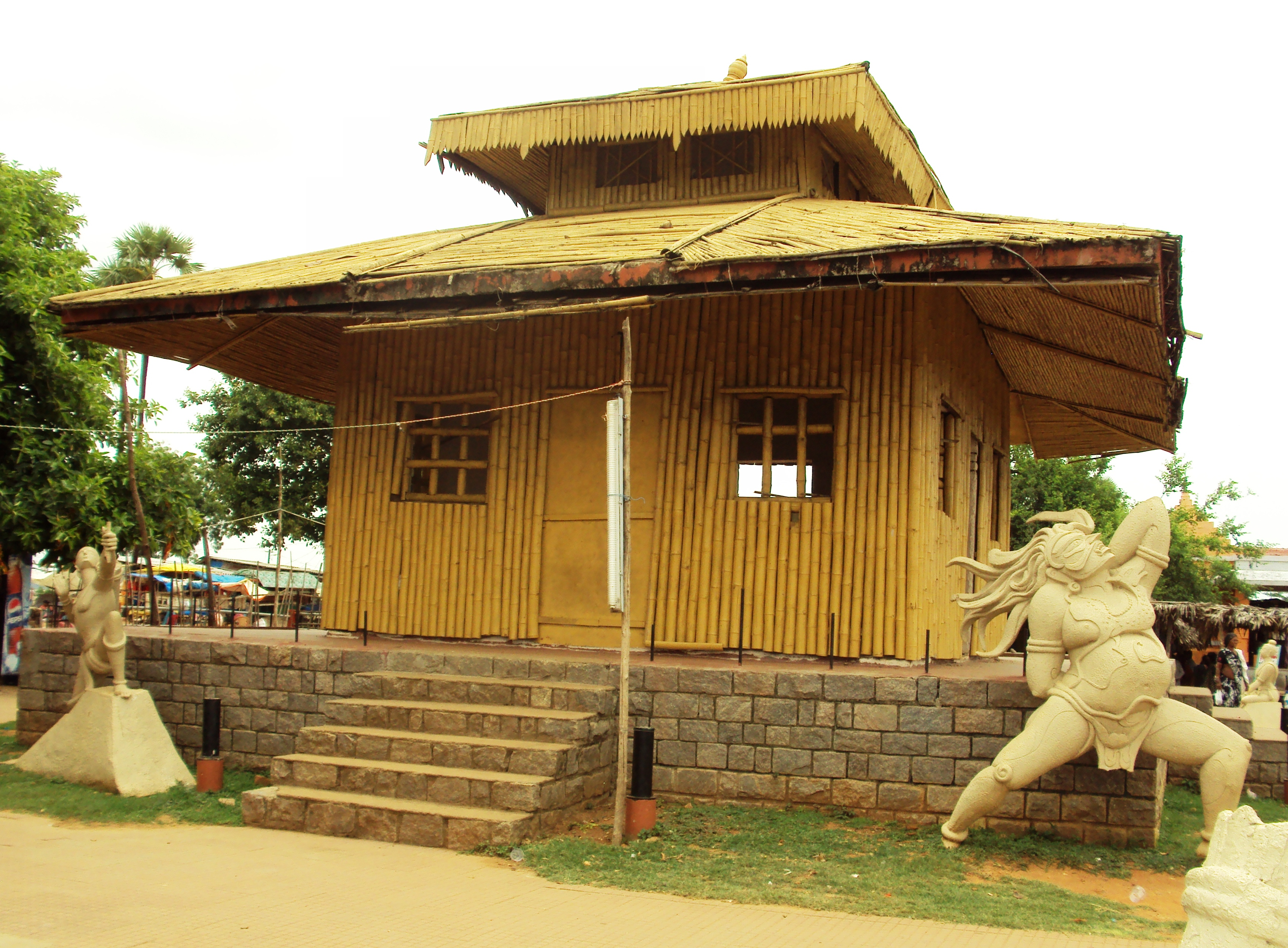 View of Parnasala in Khammam District